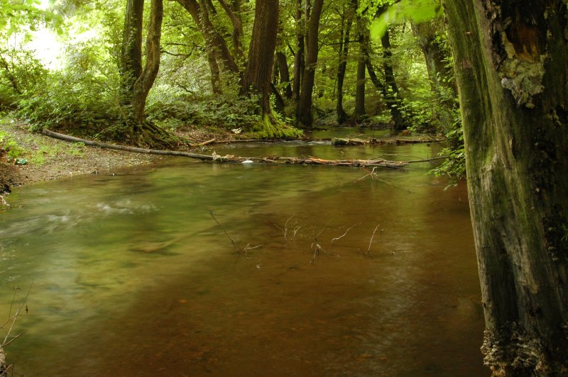 Stupavský potok in Borinka